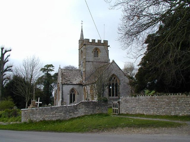 St Mary's parish church, Charlton Mackrell, Somerset, seen from the east